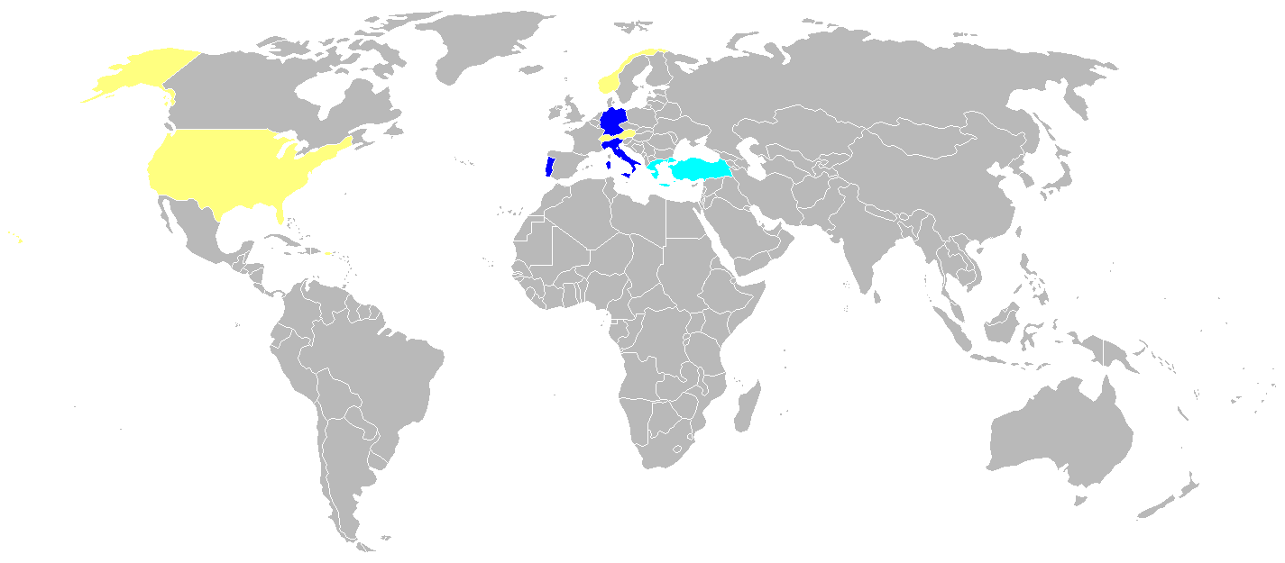 Operators of the Fiat G.91. Dark blue = operated. Light blue = ordered and cancelled. Yellow = Evalulated but did not order. Own work, derivative of File:BlankMap-World.png.